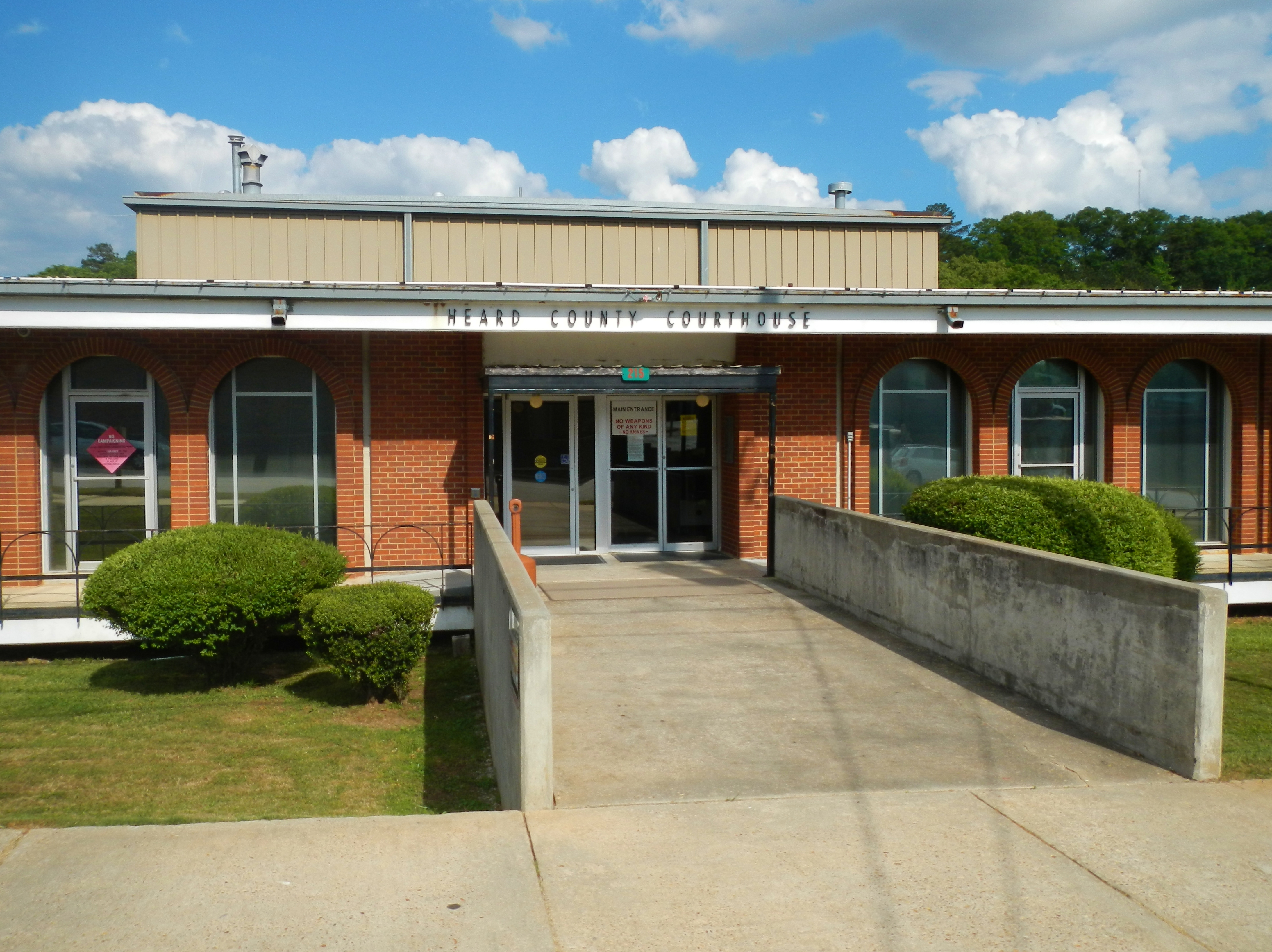 This is a photo of the Heard County Courthouse located in Franklin, Georgia.